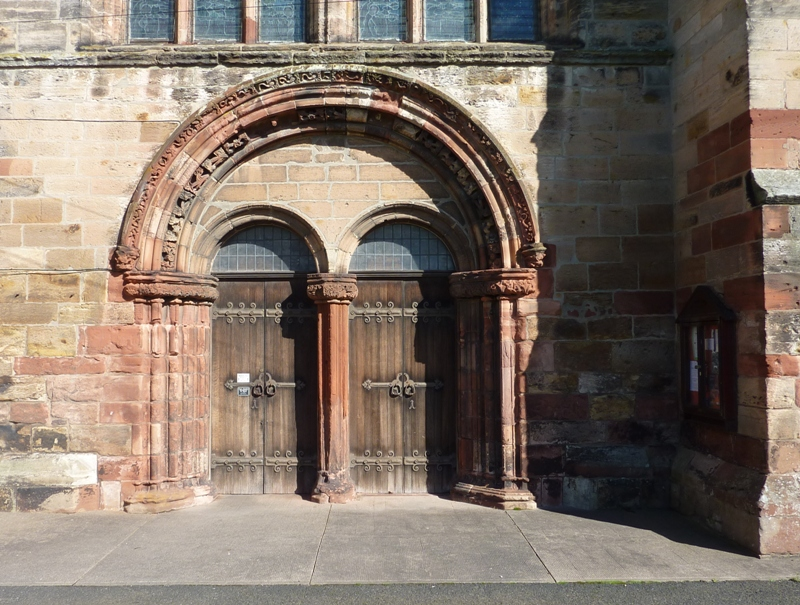 St Mary's Church, Haddington, Scotland. West entrance.